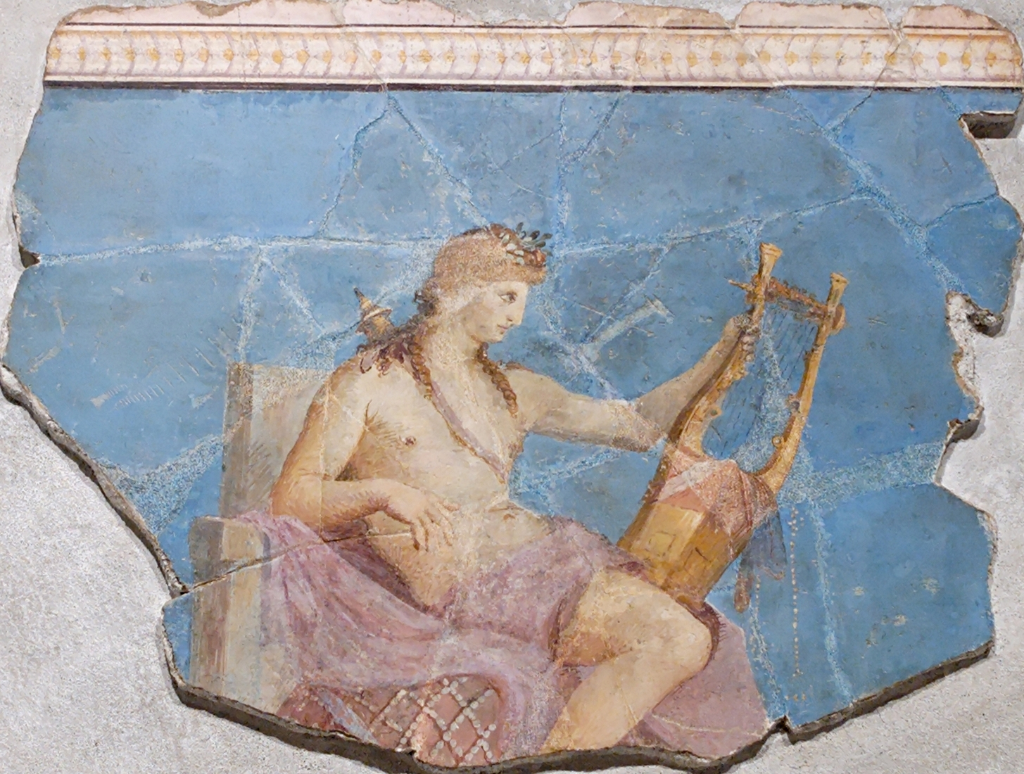 Apollo Kitharoidos. Painted plaster, Roman artwork. From the Scalae Caci on the Palatine Hill.